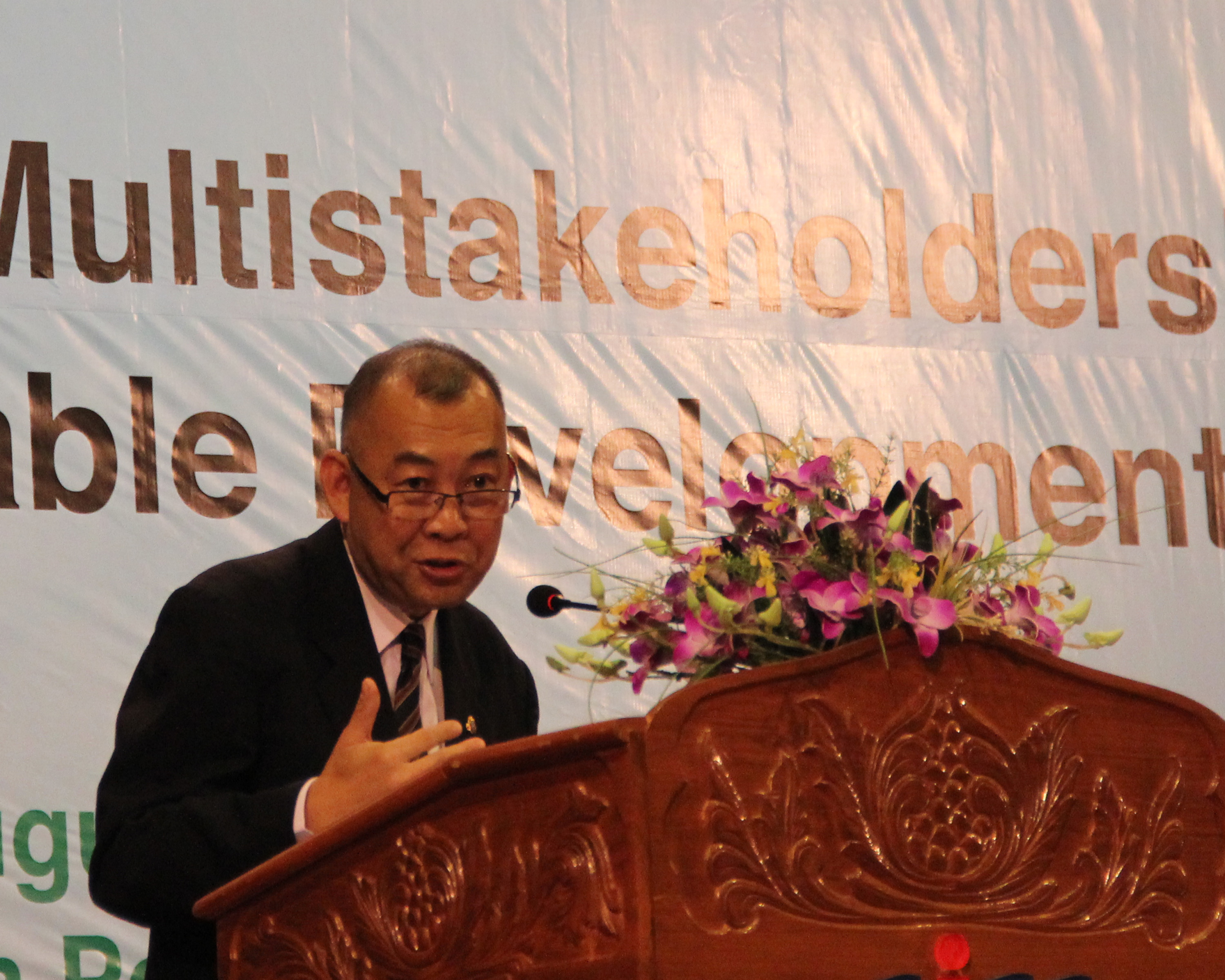 Norodom Sirivudh, former foreign minister and FUNCINPEC politician